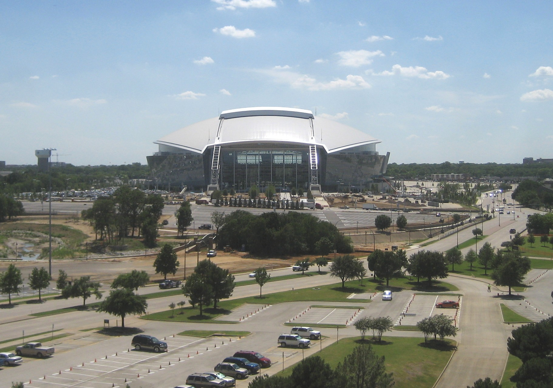 Cowboys stadium (cropped from original)